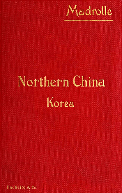 cover of guide book by Madrolle